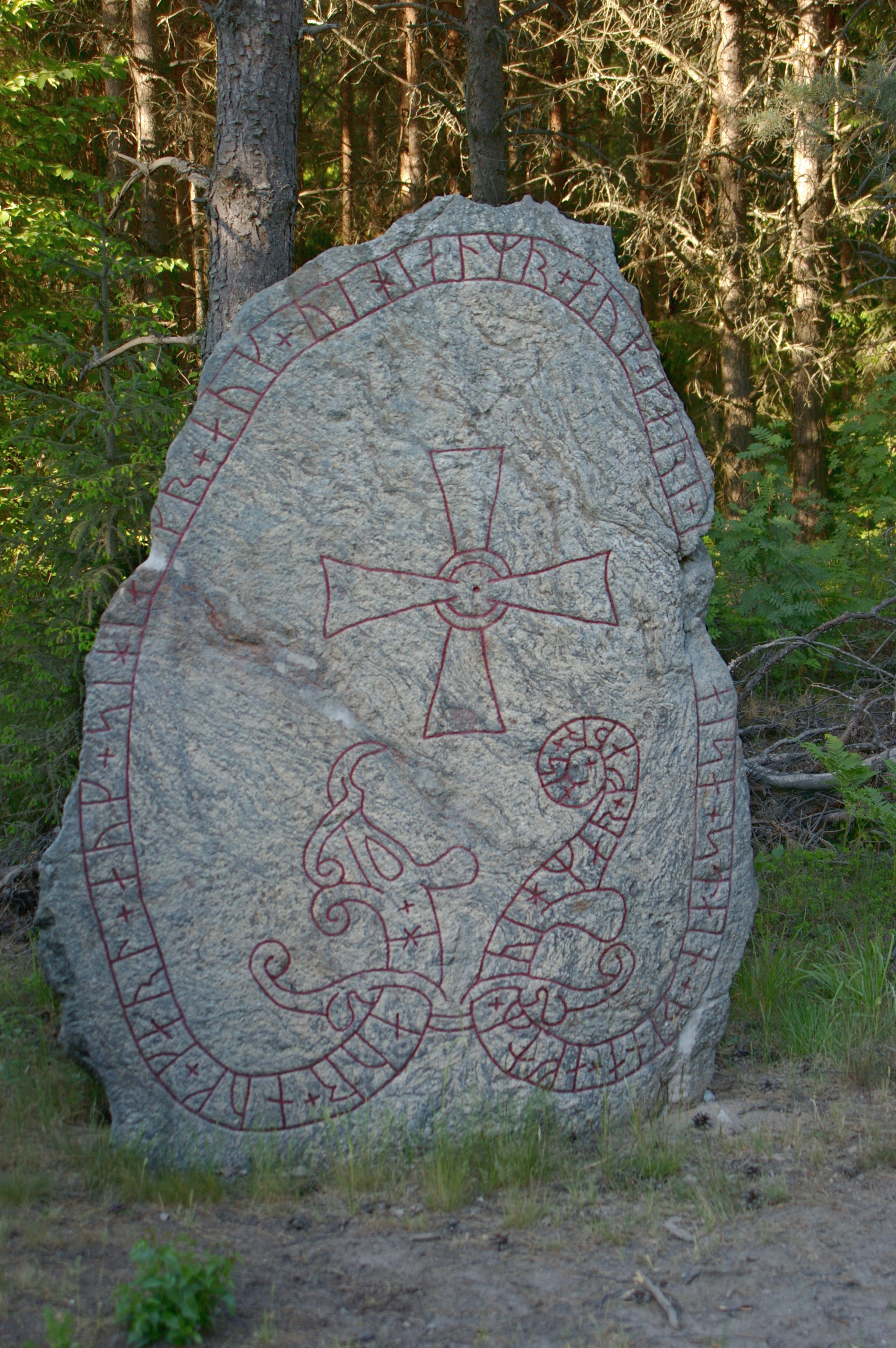 Runestone Uringe Malm, Södermanland, Sweden English translation of runic text: Haurr and Karl and Sighjalmr and Véhjalmr/Víghjalmr and Kári had this stone raised in memory of Vígmarr, their father.